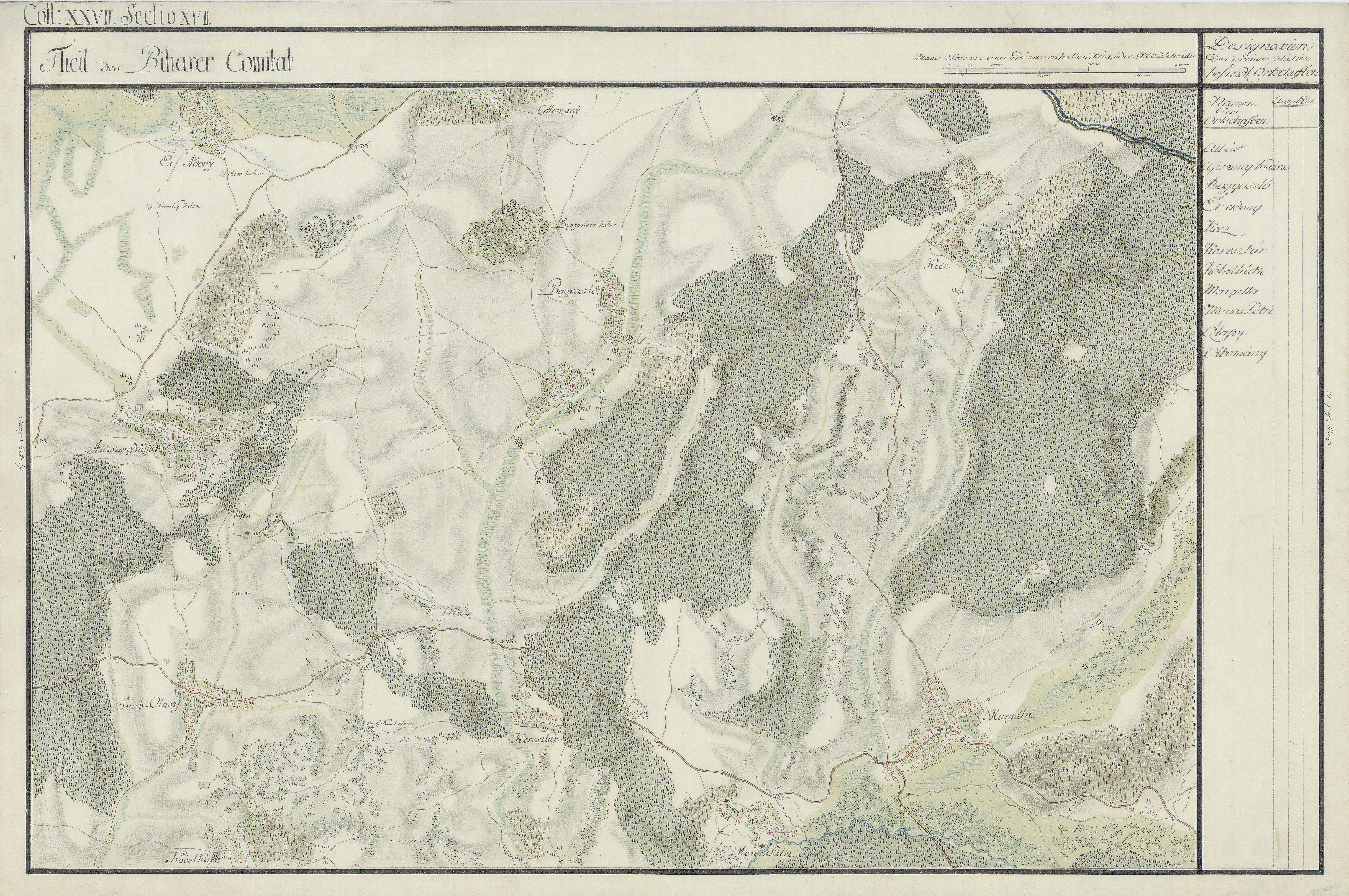 Bihor County, 1782-85. Josephinische Landesaufnahme pg.27-17